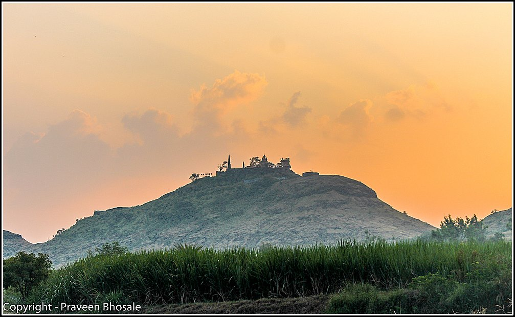 Kinhai